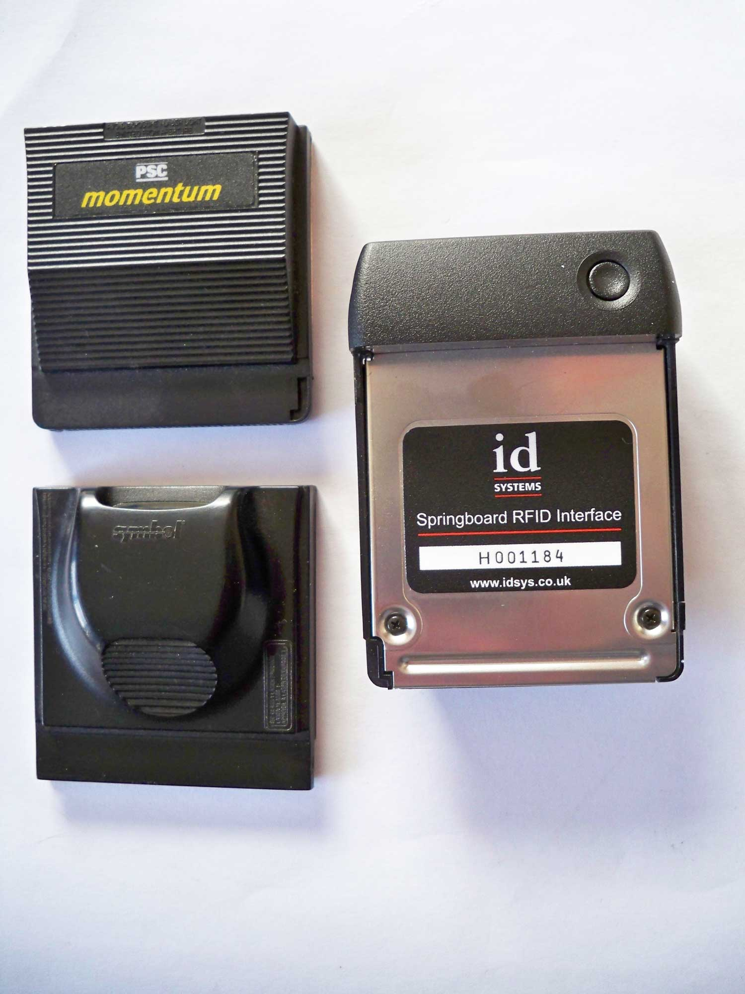 Springboard Expansion modules for the PDA Handspring Visor: Barcode scanner, RFID scanner